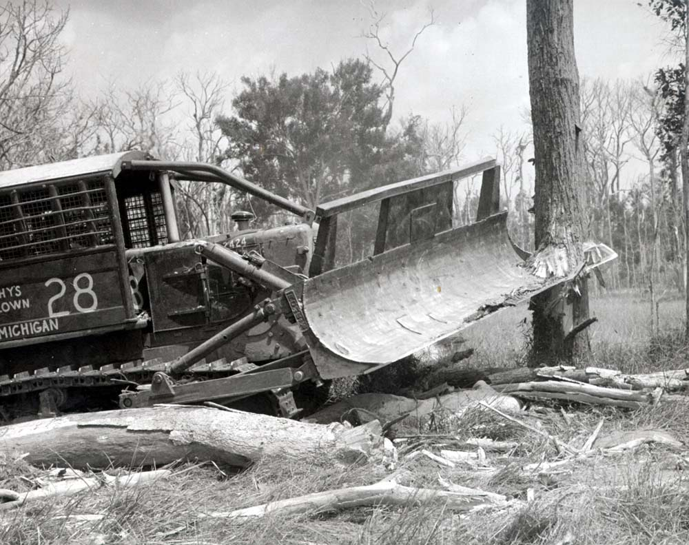 Rome plow in action from [1]